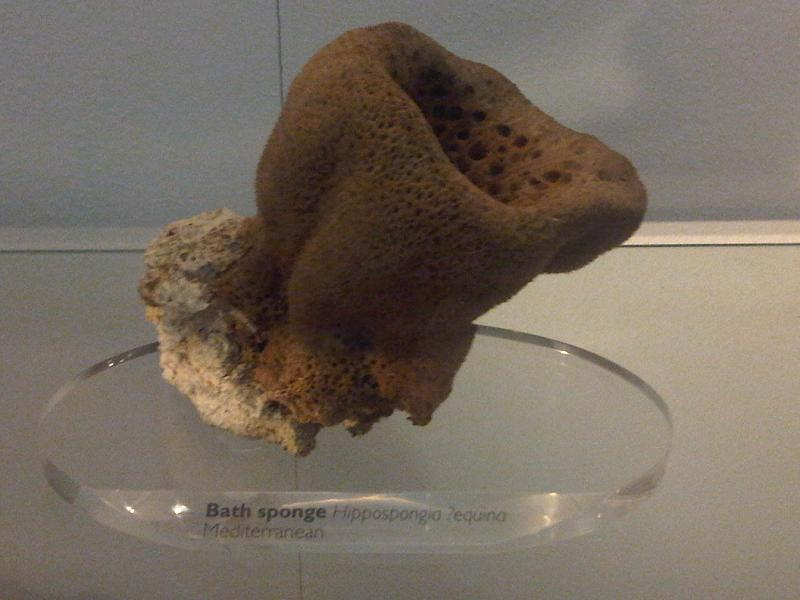 Hippospongia communis (=Hippospongia equina) at the Natural History Museum in London, England.